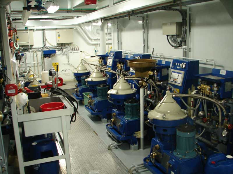 Oil and Diesel separators on the salvage tug Abeille Bourbon